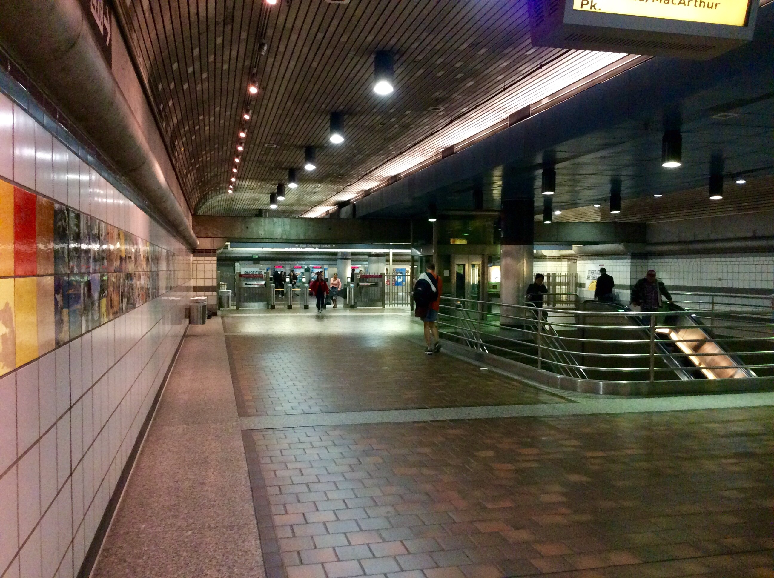 The upper floor view (transfer route) of 7th Street/Metro Center Station.